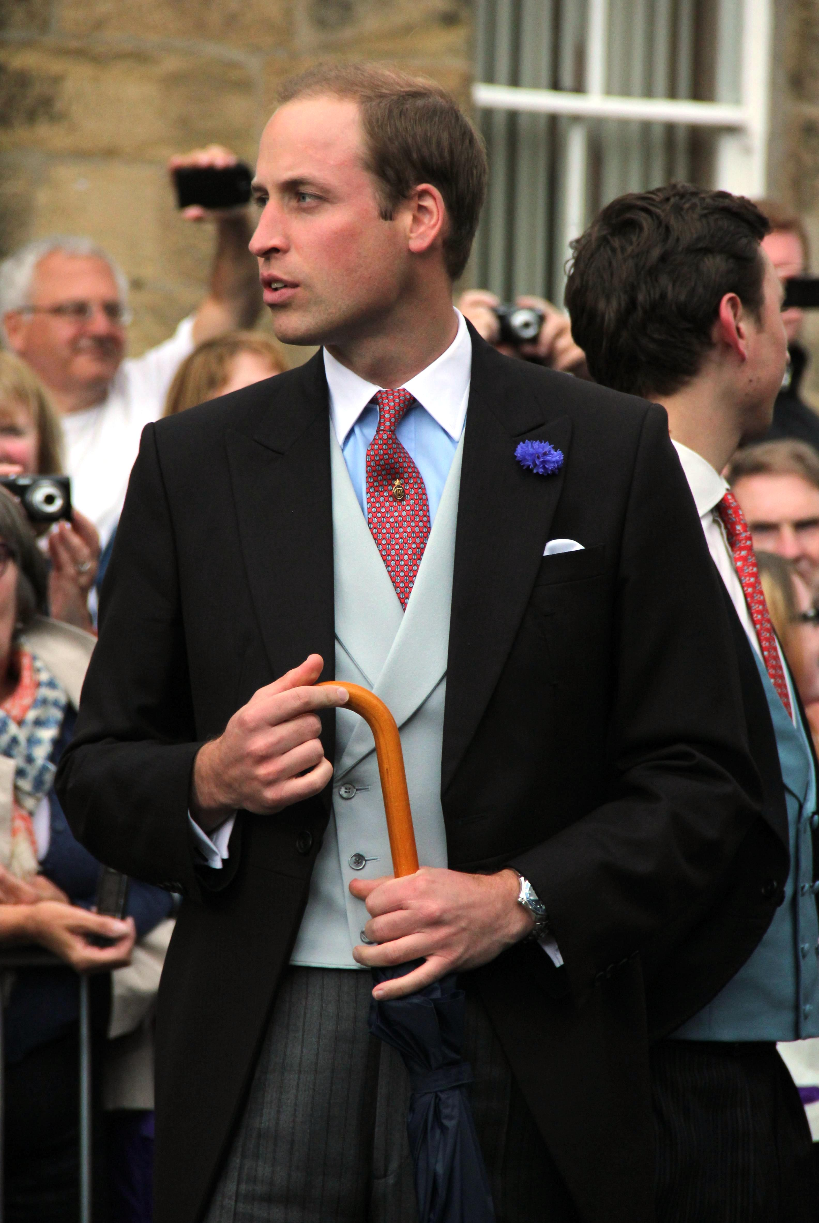 The Duke of Cambridge at the wedding of Lady Melissa Percy